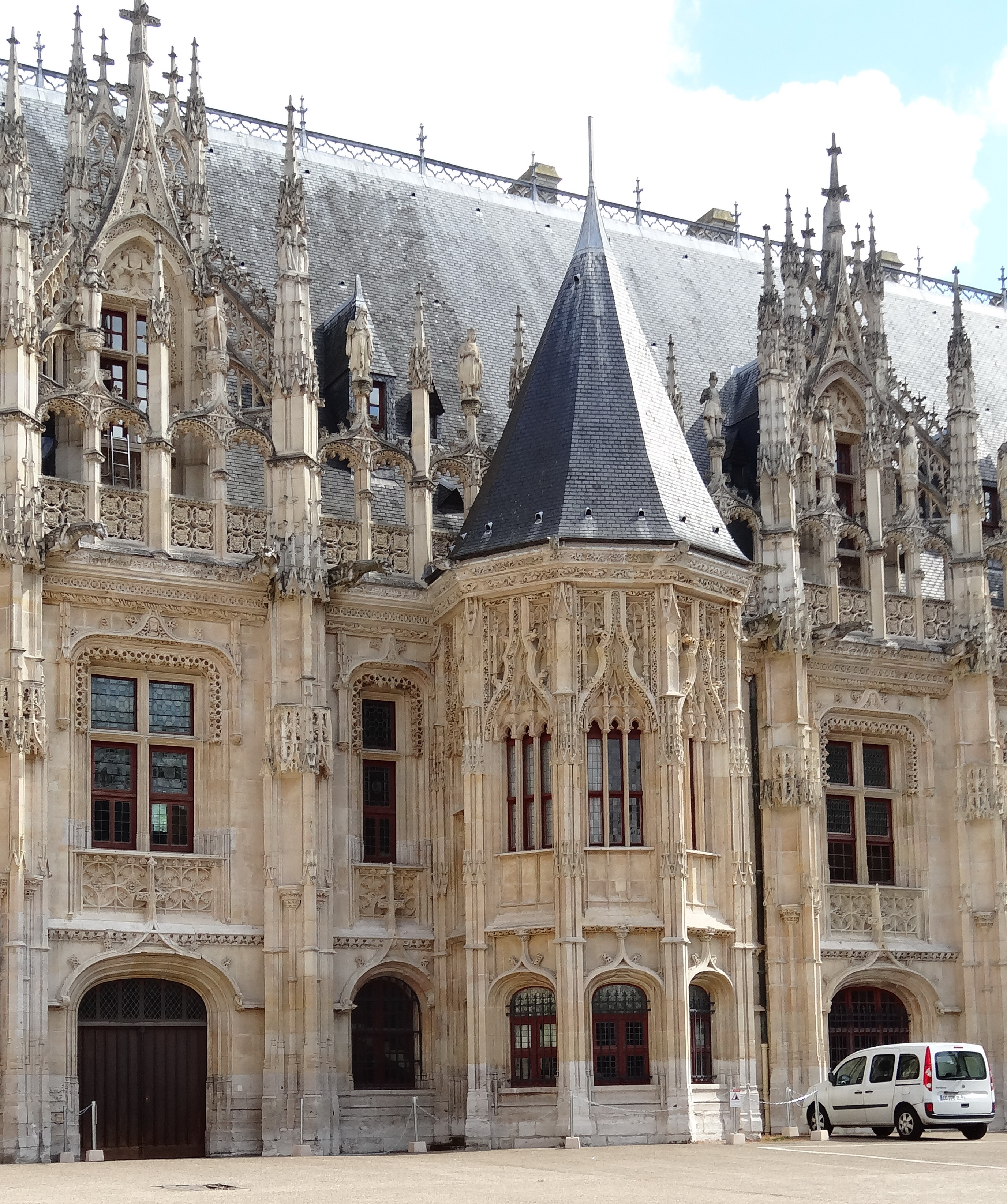 Law courts of Rouen (Haute-Normandie)